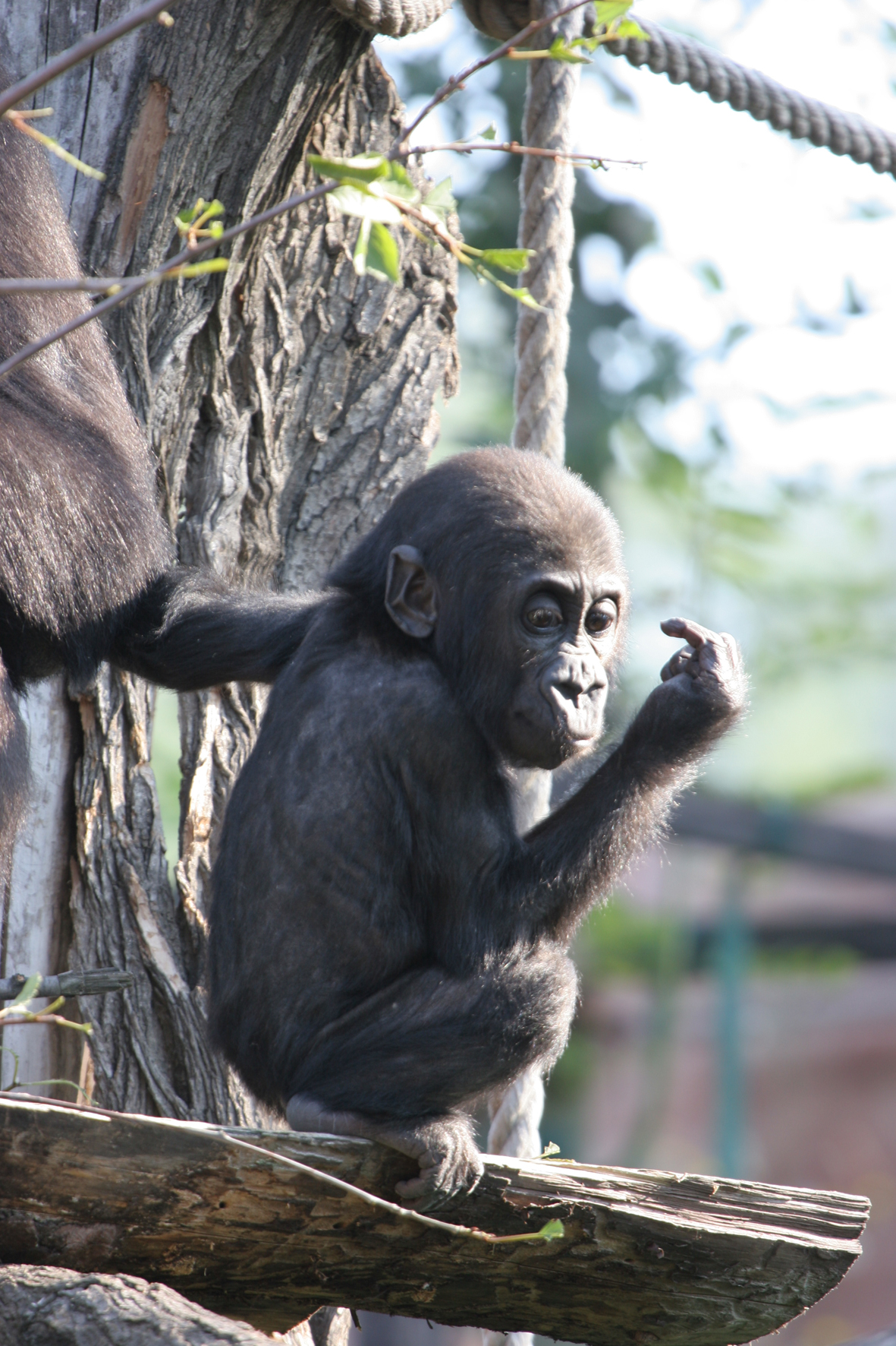 Moja - first gorilla born in captivity in ZOO Praha